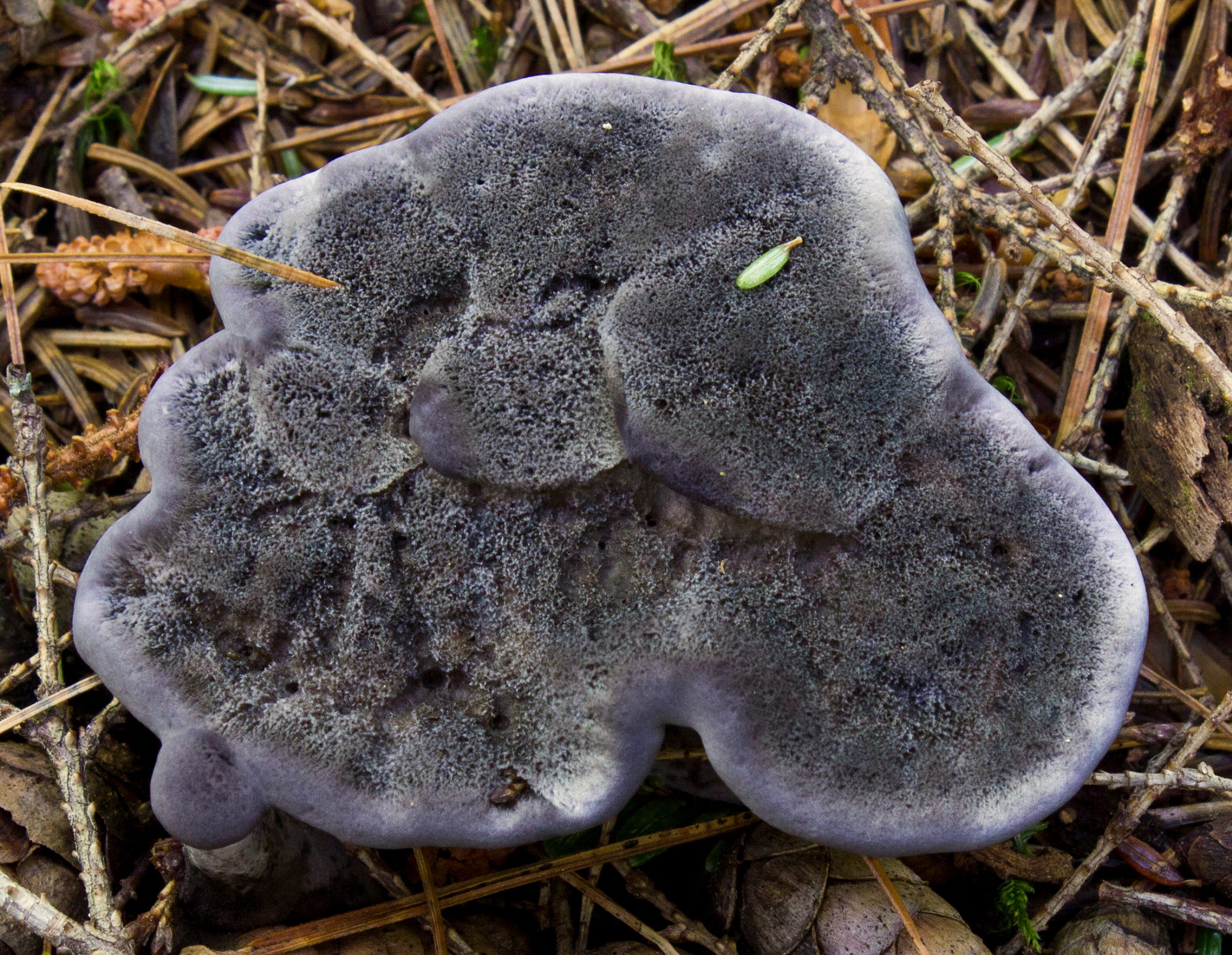 Phellodon niger (Fr.) P. Karst. Location: Oxford Co., Maine, USA Observation Notes: For more information about this, see the observation page at Mushroom Observer.